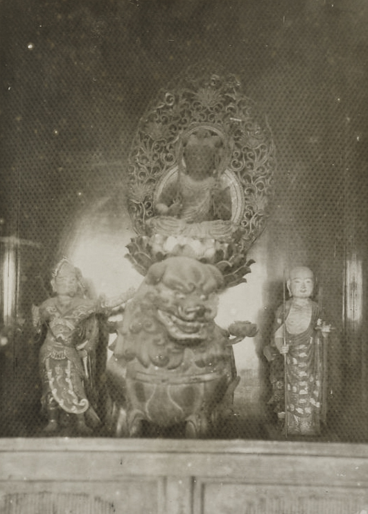 Monju Bosatsu, Hannyaji, Nara, Nara, Japan, sculpted by Kōshun and Kōsei, directed by Monkan, photo by 安村喜当